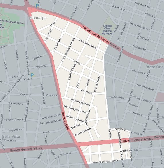 Street map of Atahualpa, Montevideo, exported from OpenStreetMap. I added shading to delimit the barrio. This map may be incomplete, and may contain errors. Don't rely solely on it for navigation.